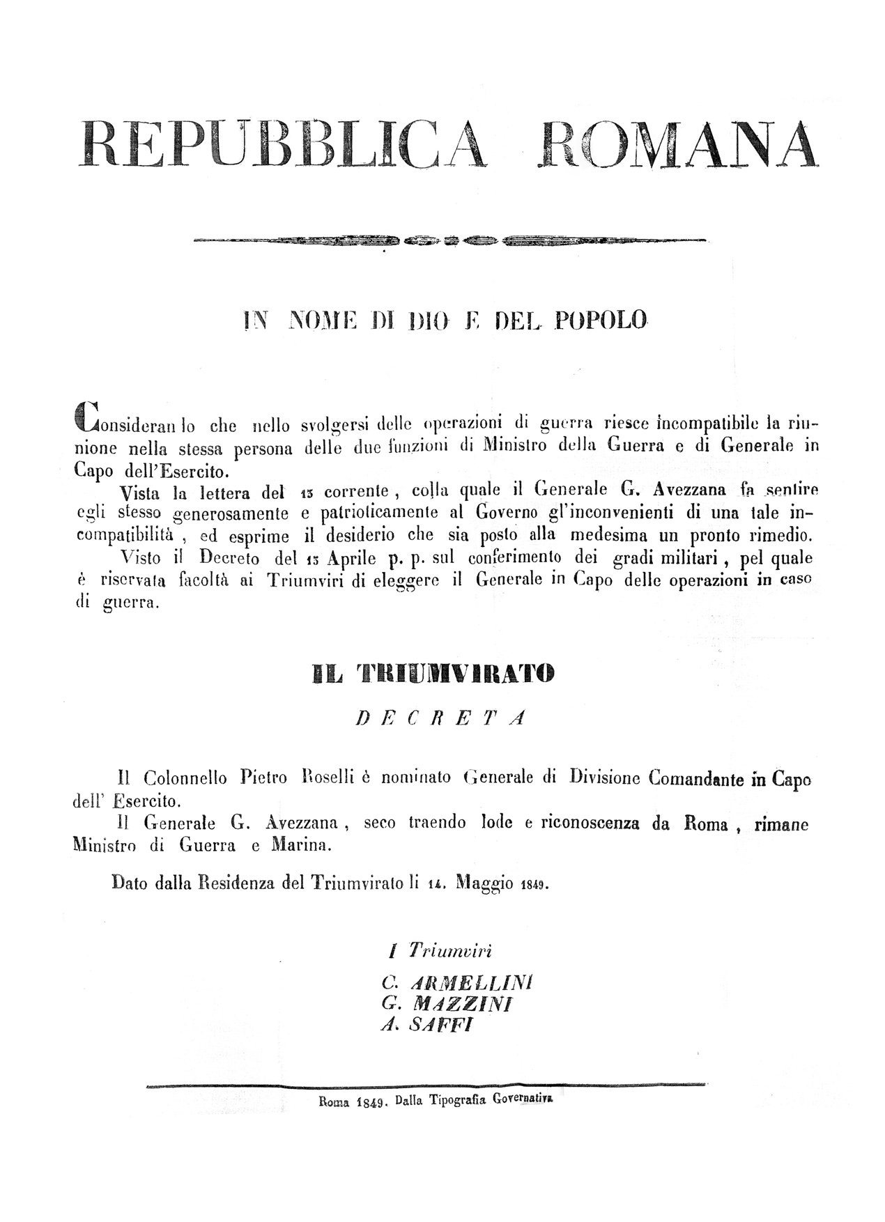 Proclamation of the Triumvirate of the Roman Republic where he was named Pietro Roselli Division General Commander in Chief of the Army of the Republic, May 14, 1849 - Collection Roselli Lorenzini